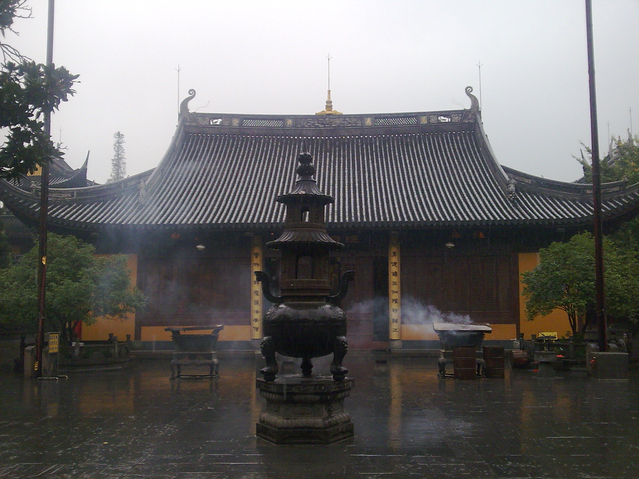 Longhua Temple in Shanghai, China